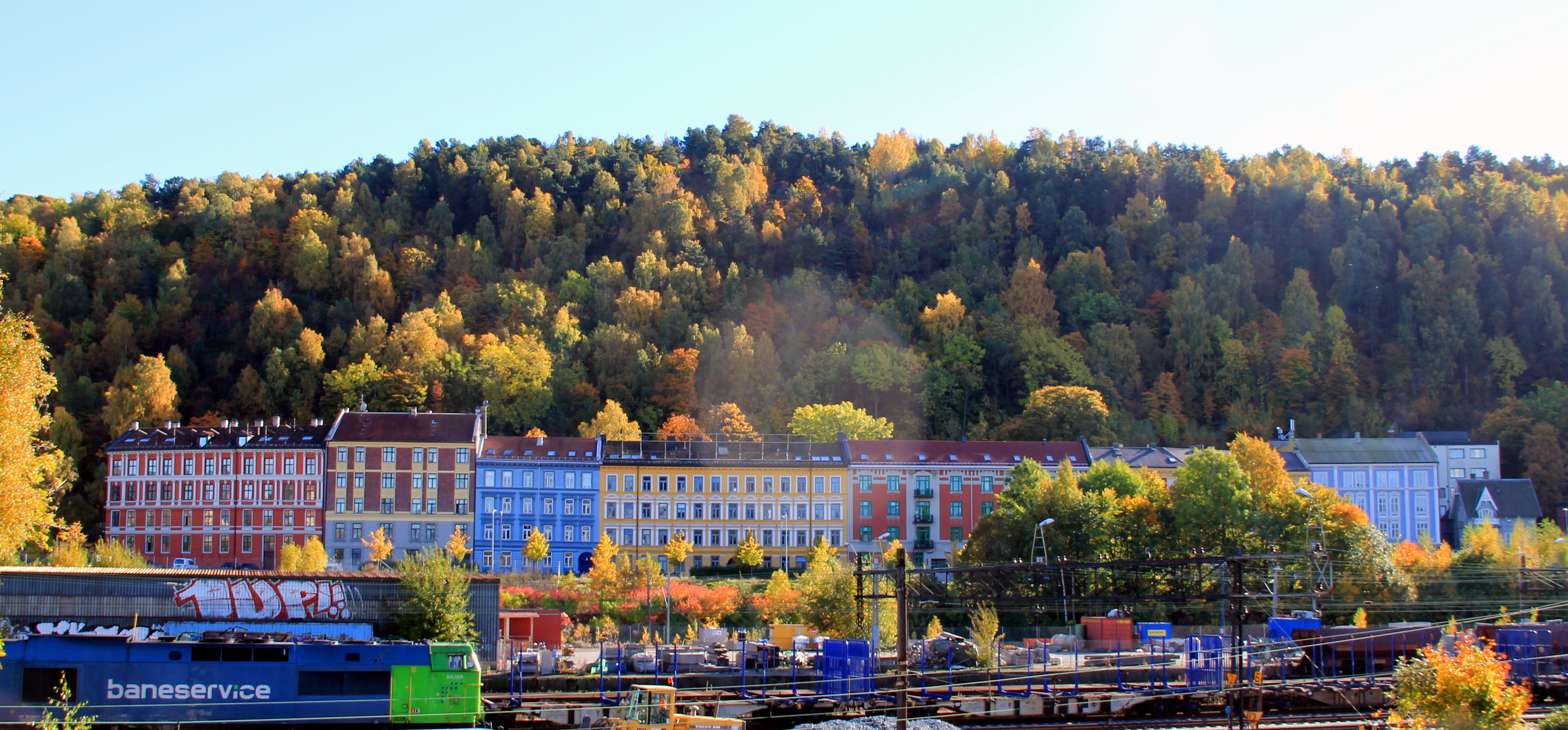 Ekebergskrenten, Oslo